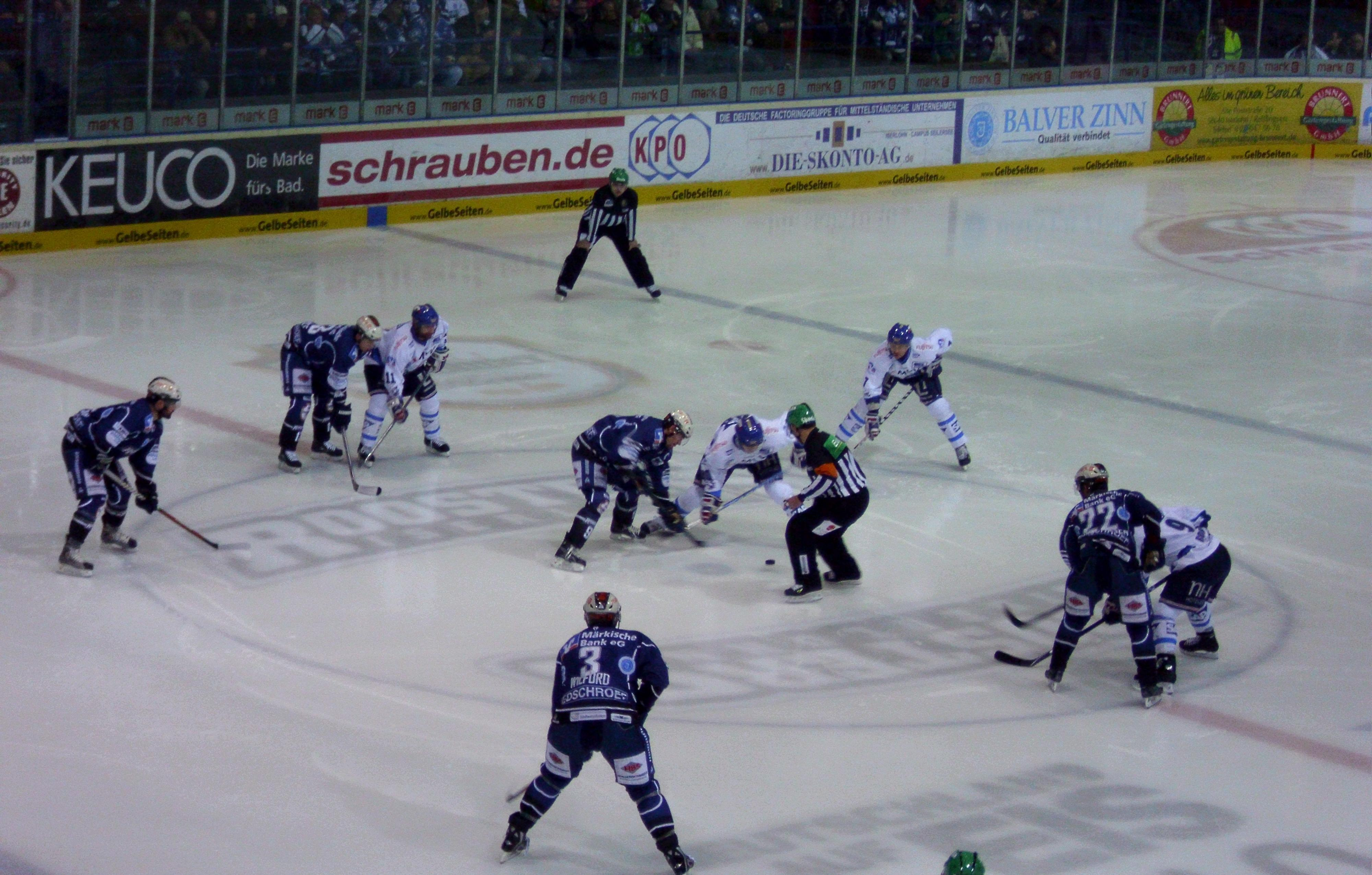 Iserlohn Roosters in a game against the Adler Mannheim